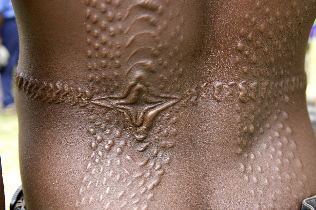 The tribes along Papua New Guinea’s Sepik river use a “crocodile” scarification as part of the coming of age ritual for their young men. I’ll stick with driver’s ed.